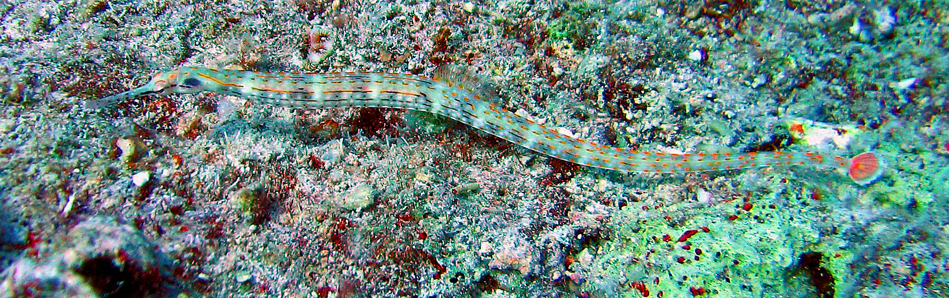 Corythoichthys schultzi at Hurgada, Red Sea